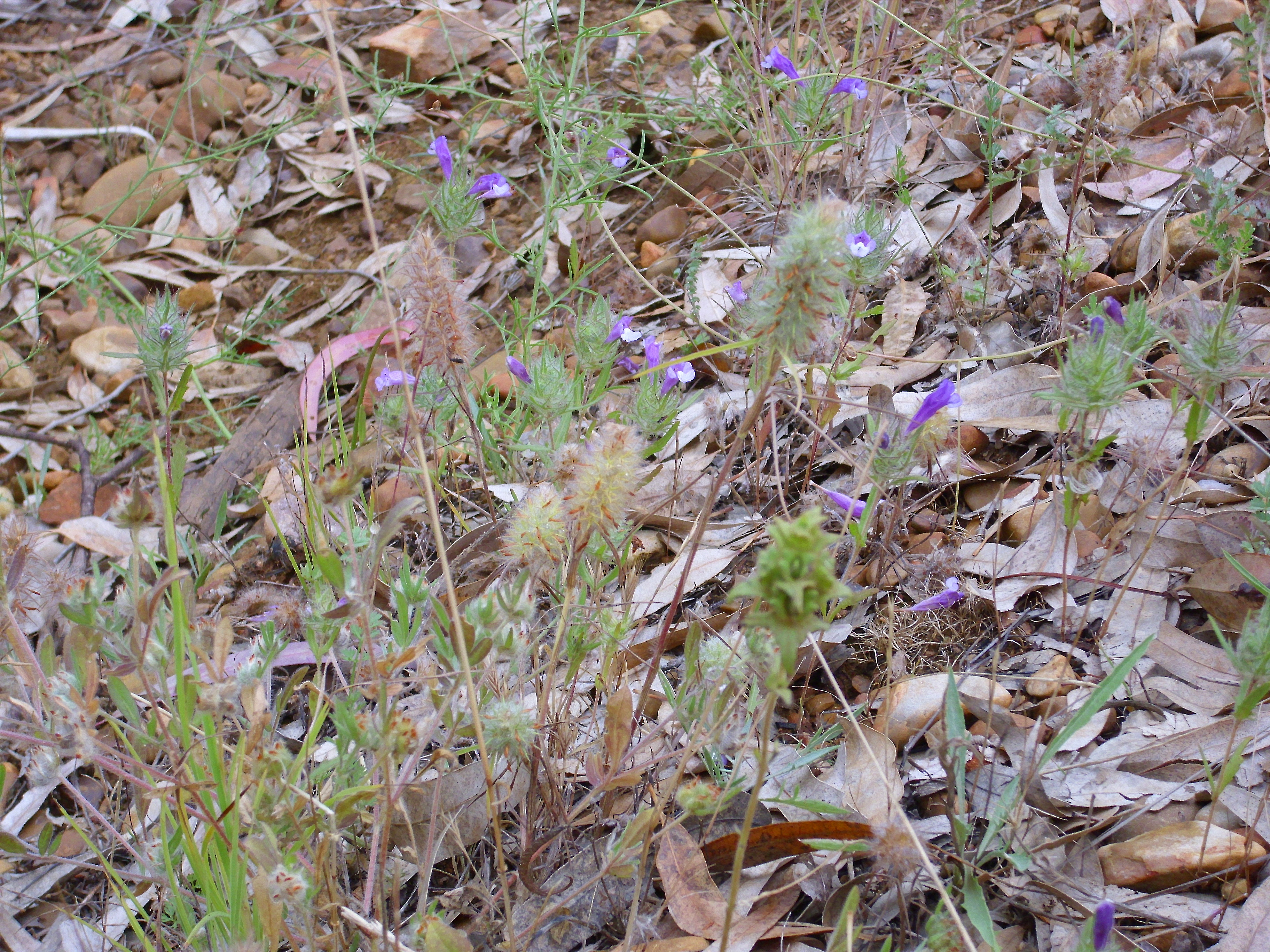 Cleonia lusitanica habitat, Dehesa Boyal de Puertollano, Spain